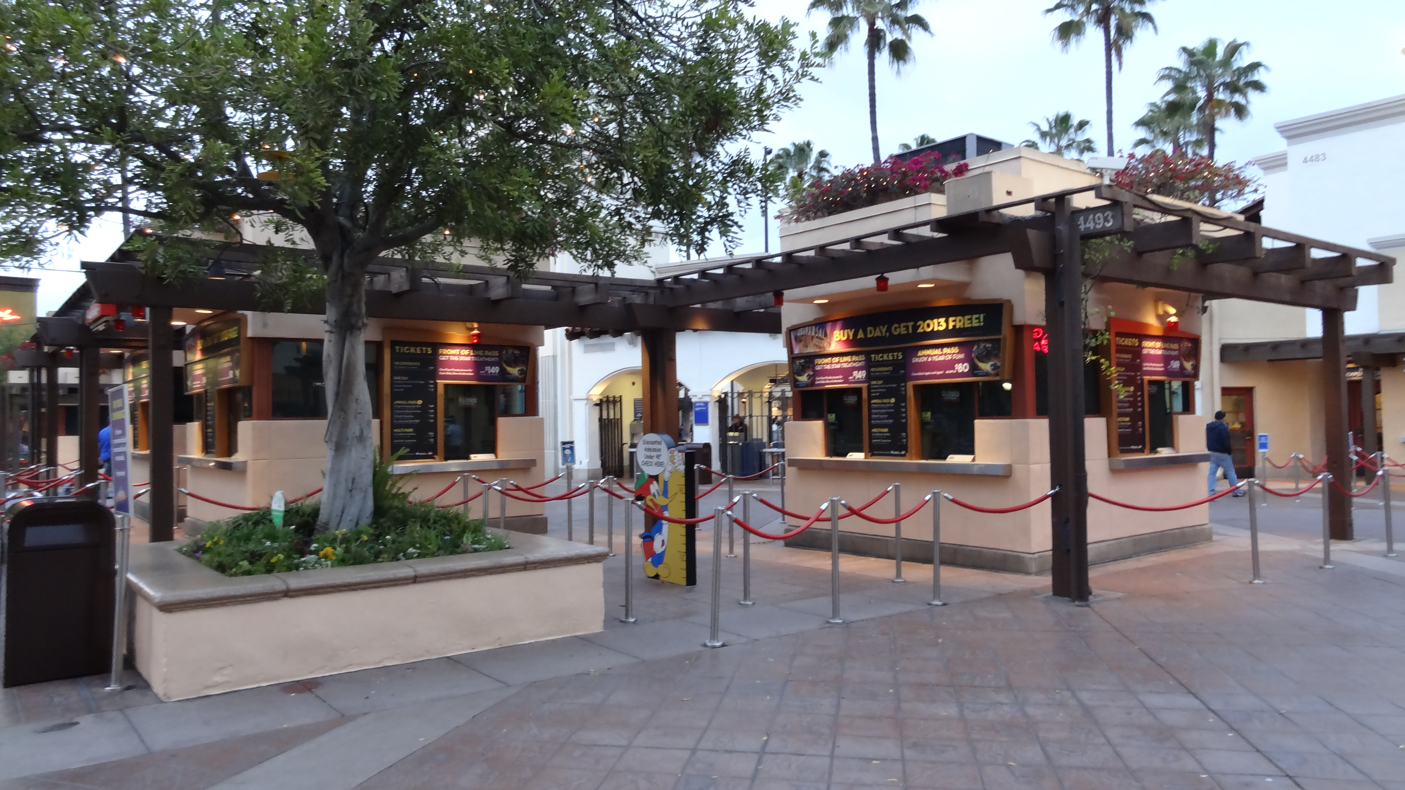 Ticket booths.